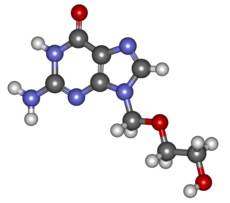 Acyclovir 3D image.